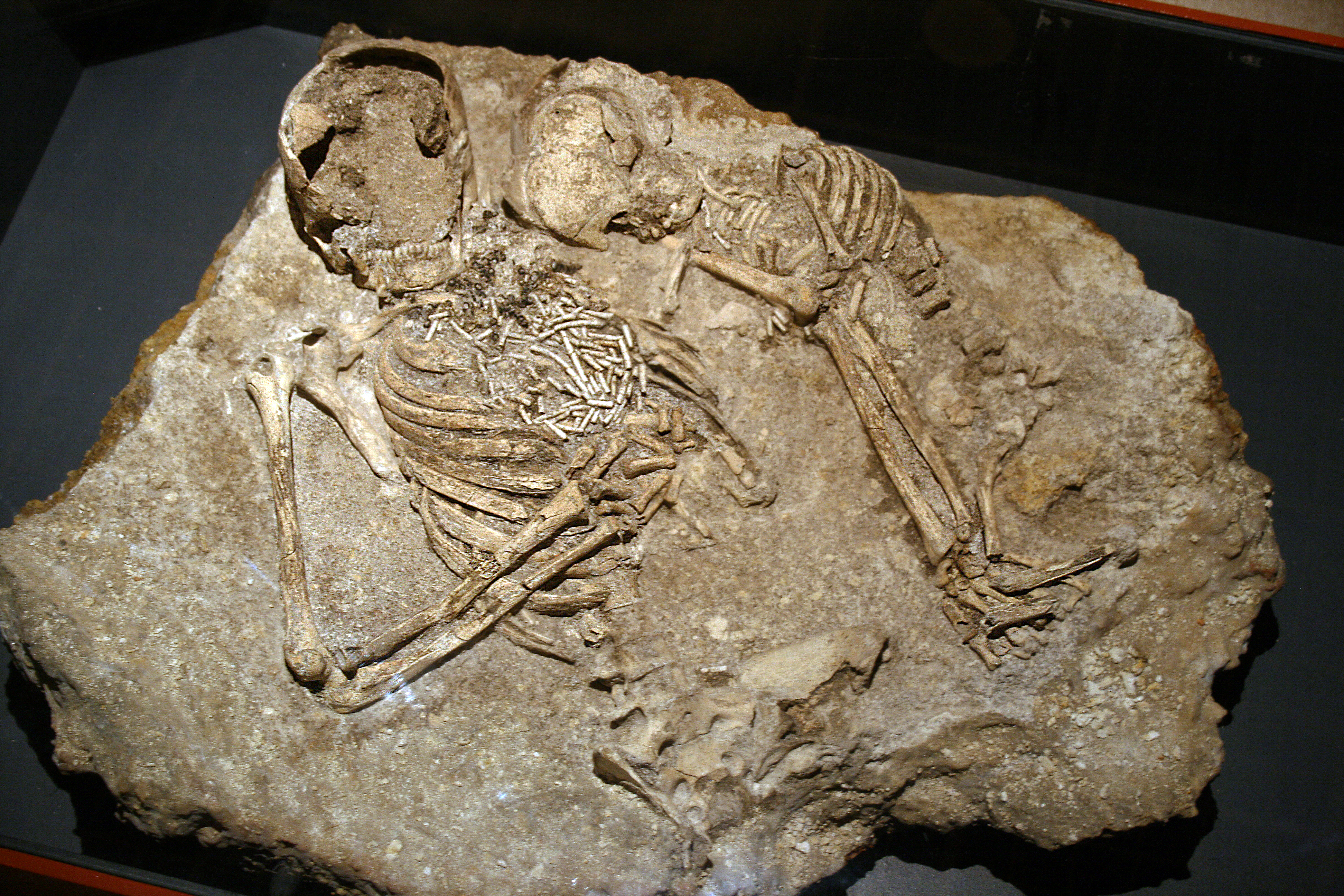 Double burial, a woman (20 years old and her child) Stage : Neolithic (- 4 500 years Before the Current Era) Locality : La Chapelle-Saint-Mesmin, Loiret, France